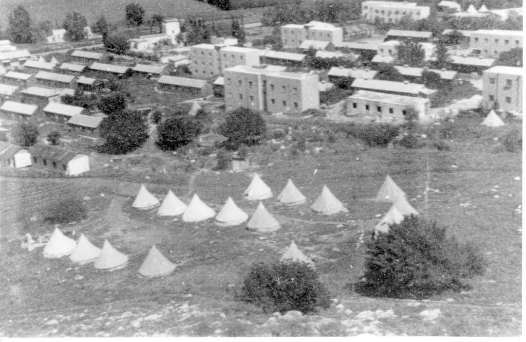 The Palmach, Settlements in Israel